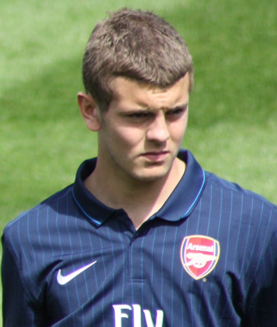 Jack Wilshere at Arsenal's pre-season friendly against Barnet F.C. at Underhill, Barnet, London. This file has been extracted from another file: Andrei Arshavin Jack Wilshere 2009.jpg